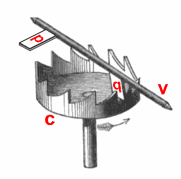 Drawing of verge escapement, used in antique clocks and watches. Invented in the 13th century, it was the mechanism used in all clocks and watches for 400 years, until about 1660. The labeled parts are: (c) crown wheel, (v) verge, (p,q) pallets. An error in the drawing is that the crown wheel is shown with 12 teeth; verge escapements must actually have an odd number of teeth to function. Alterations: Removed pendulum crutch. Erased upper pallet, which was drawn incorrectly parallel to the other pallet, and redrew pallet in correct position. Removed caption and part labels, replaced labels with new colored ones.